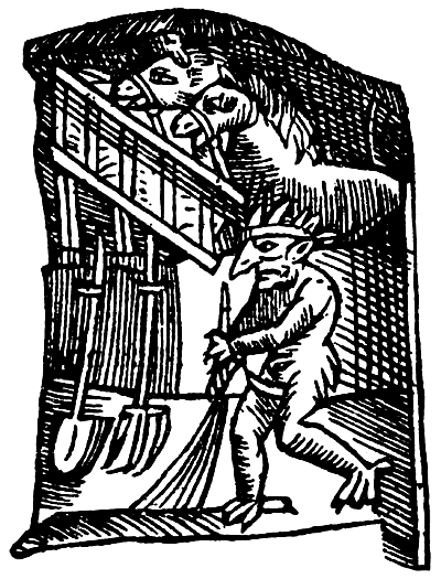 A tomte by Carta Marina from 1539